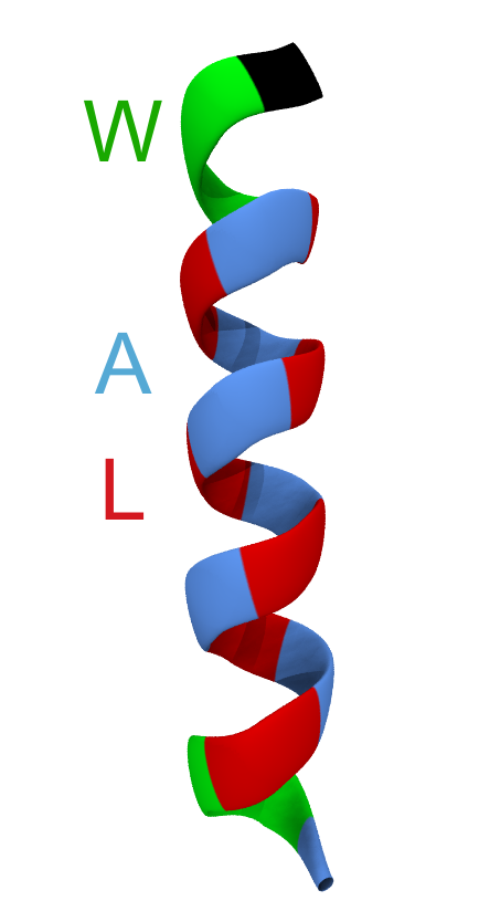 WALP-19 protein peptide of the following sequence of 19 amino acids: GWWLALALALALALALWWA. Tryptophan residues are shown in green while leucines and alanines are displayed in red and blue, respectively. Molecule constructed using the VMD Molefacture plugin. Image rendered in VMD.